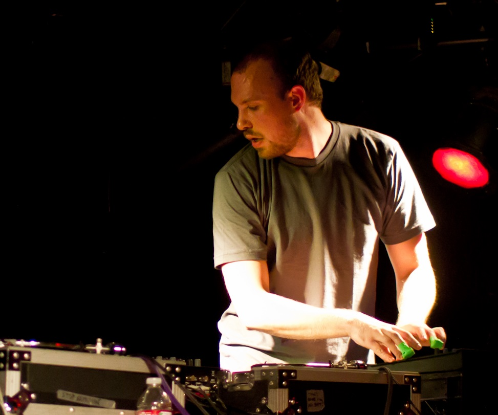 Lazerbeak of Minnesota hip-hop septet Doomtree performing at Chasers Bar and Nightclub in Scottsdale, AZ on 2/4/2012.